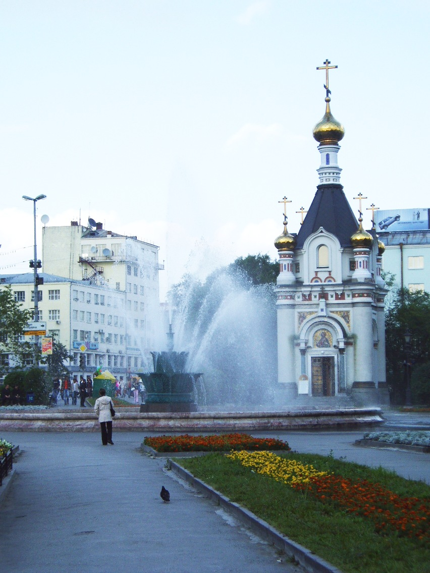 Chapel of saint Yekaterina on the Labour square in the Russian city of Yekaterinburg